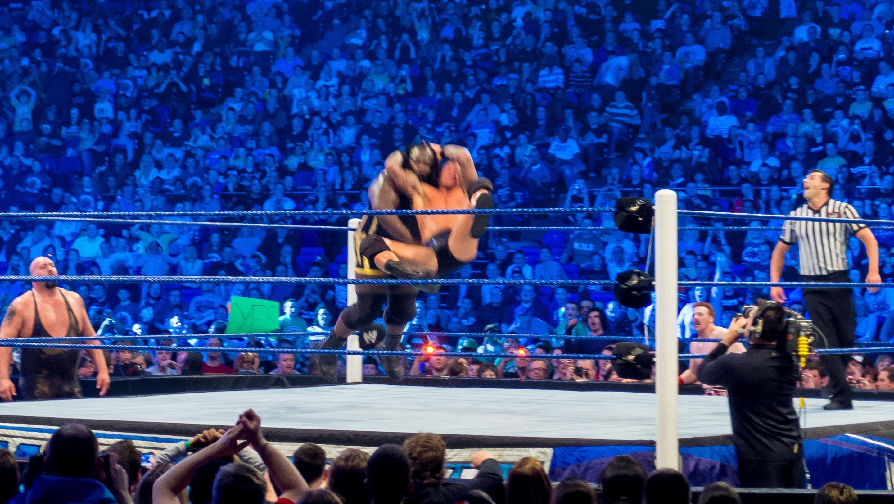 Orton performing RKO on Henry